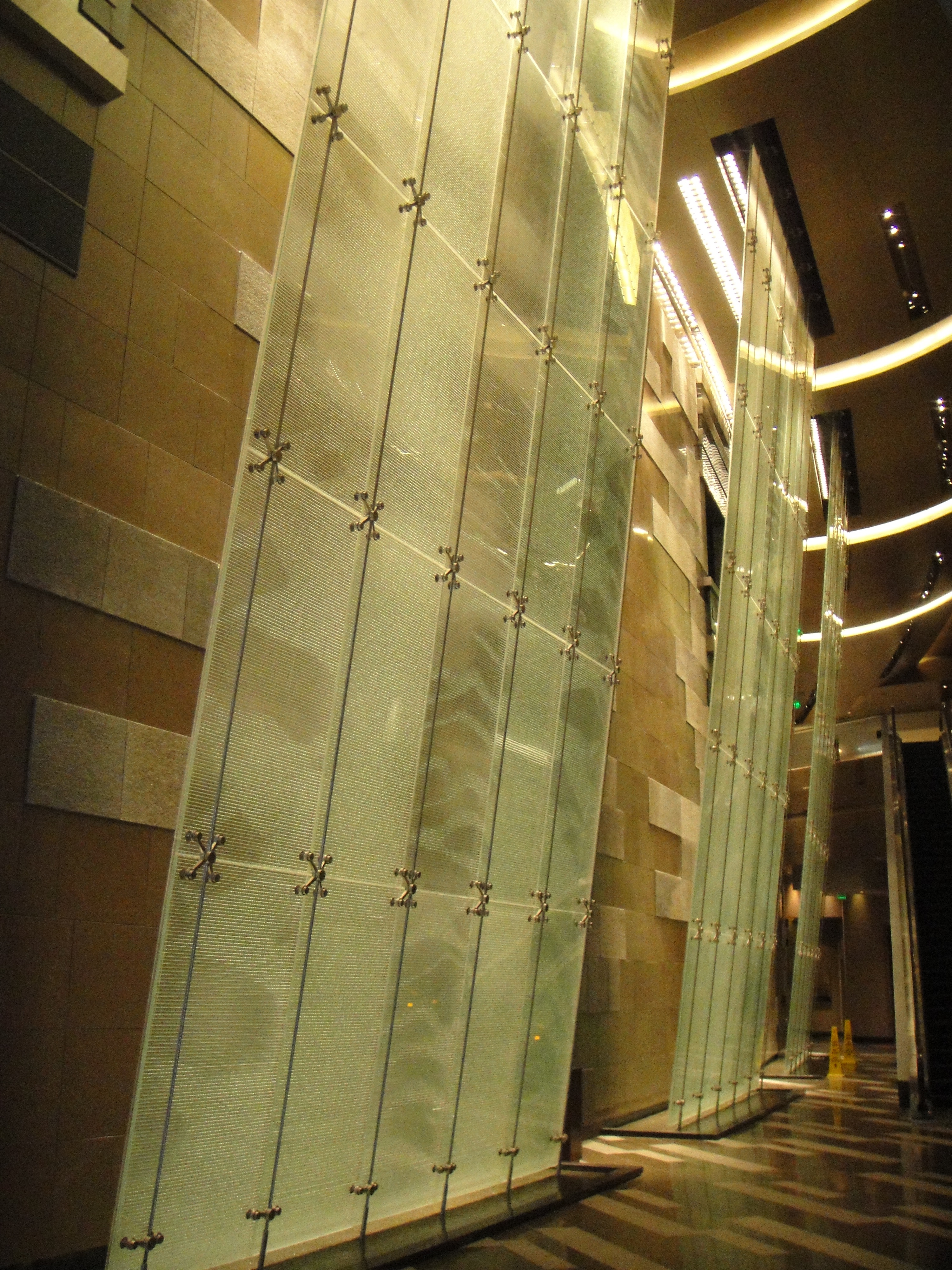 The water wall inside the Aria called Latisse by WET